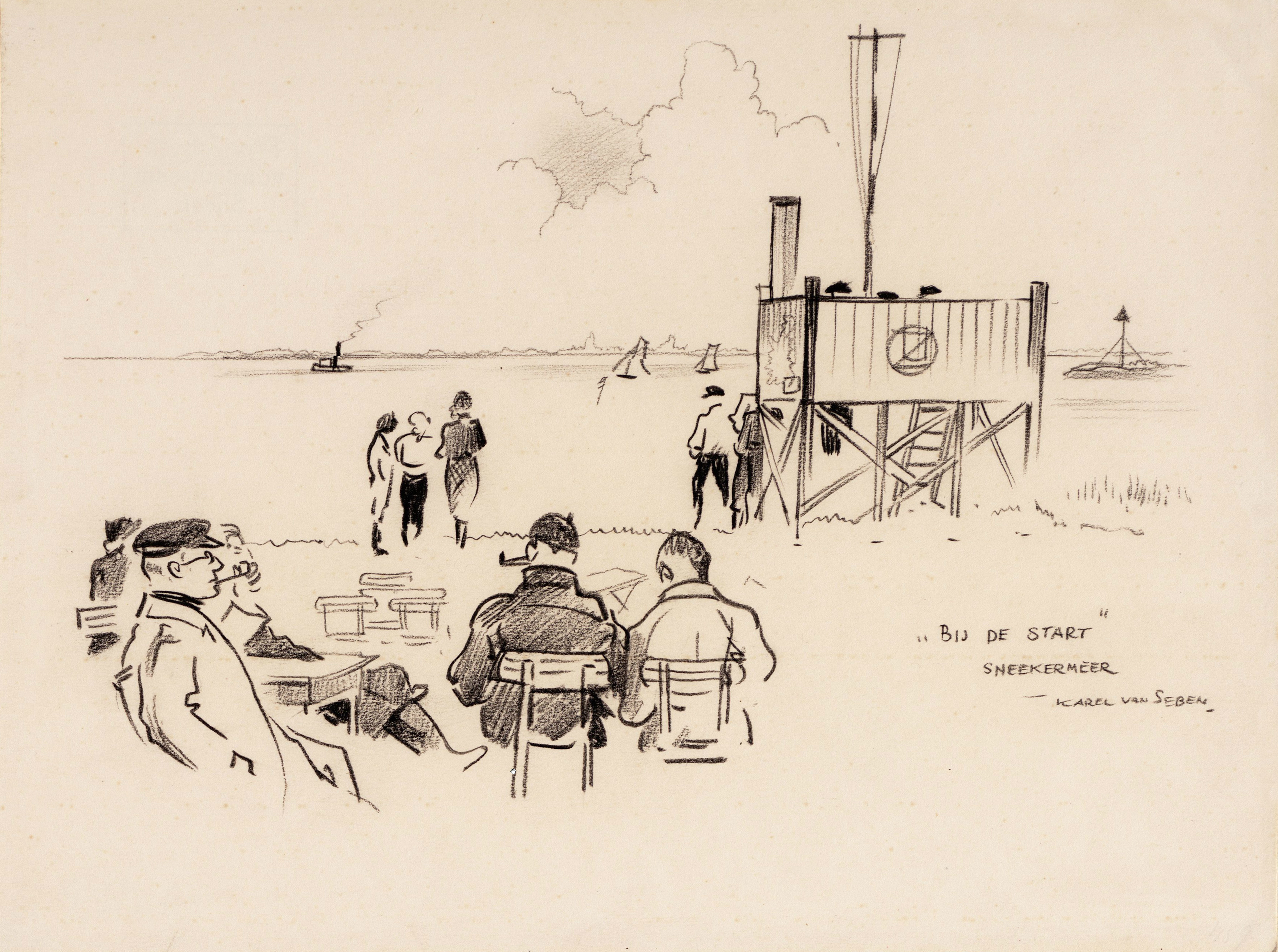 "Bij de start, Sneekermeer" by KH van Seben, 1925.